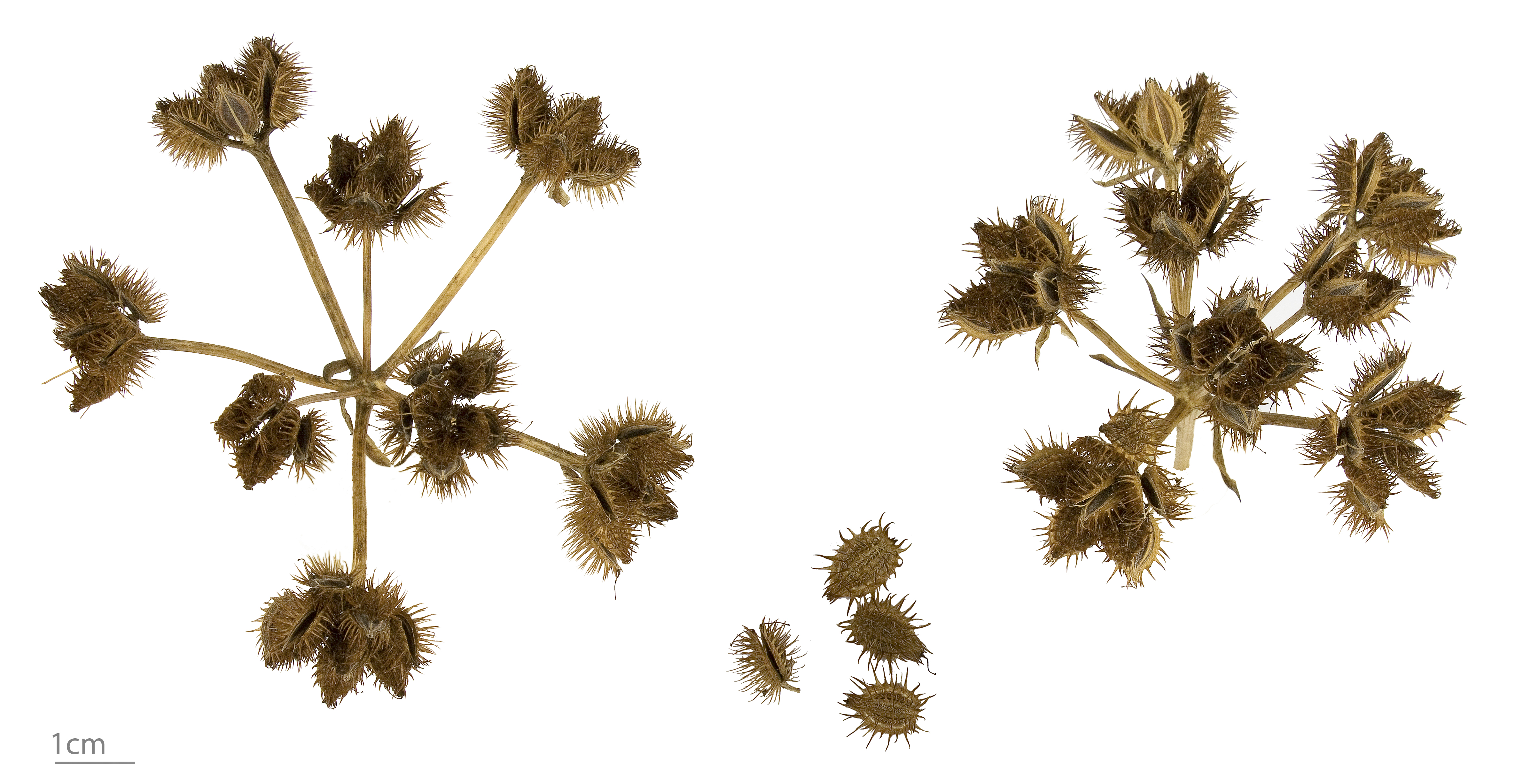 Large-flowered Orlaya , fruits and seeds